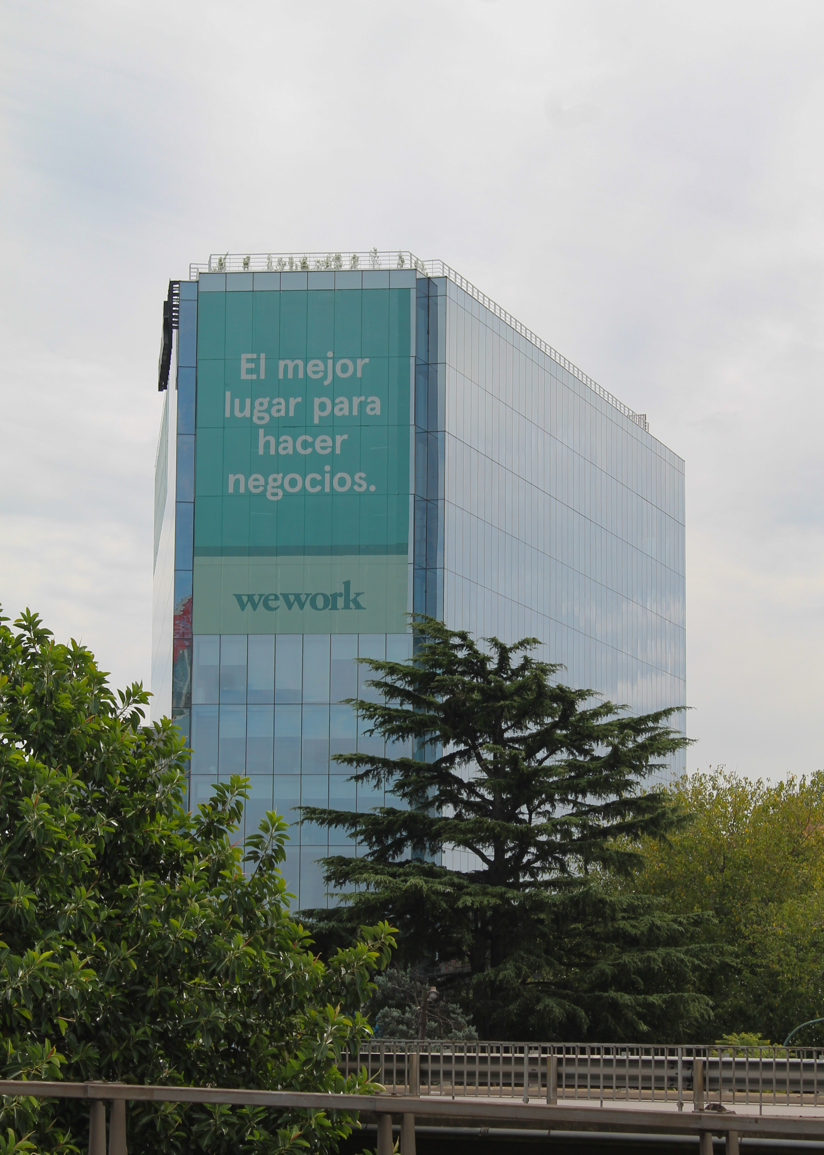 WeWork Building (MRA+A, 2016-19), in Florida, Buenos Aires.